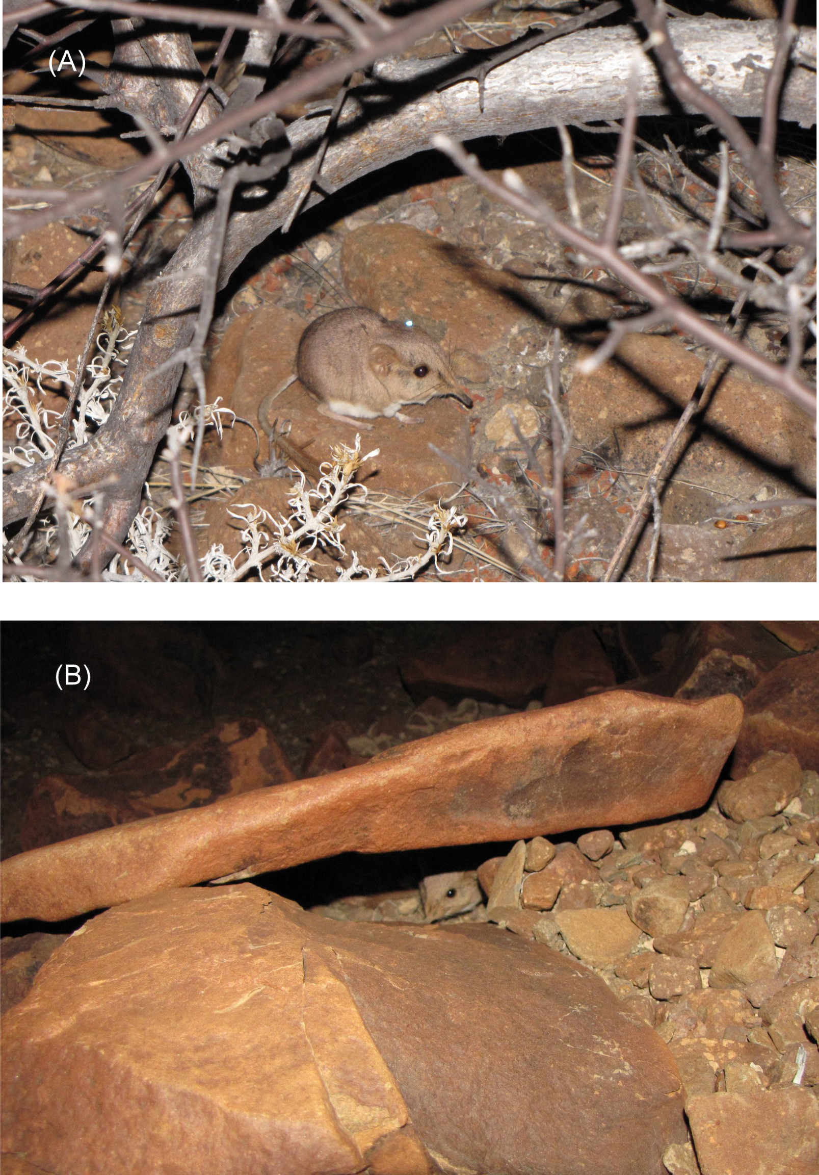 Ear-tagged and radio-collared Macroscelides micus at study site in Goboboseb Mountains, Namibia. (A) Sengi #4856F under Commiphora bush on 22 Oct 2014 at 2342 h. Visible are the reflective tag on left ear and transmitter antenna extending from top of neck over back. Radio collar is completely hidden by fur. (B) Sengi #4947M at the opening of a typical rock shelter on 25 Oct 2014 at 2351 h.